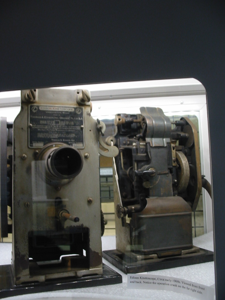 Thomas Edison National Historical Park kinetophone, early 1900s.